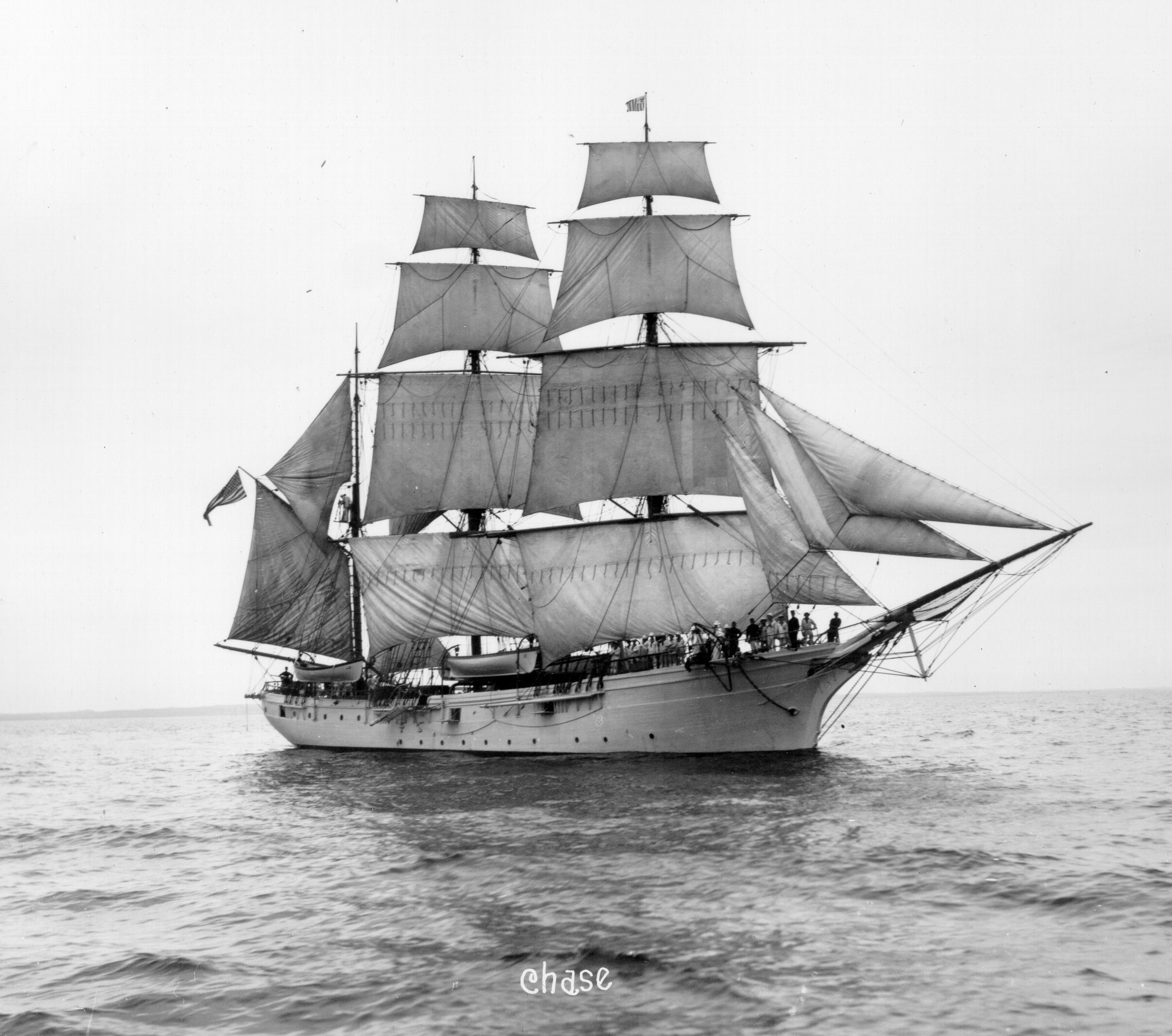 The U.S. Revenue Cutter Salmon P. Chase. Date and location unknown, but some time before decommissioning in 1907.